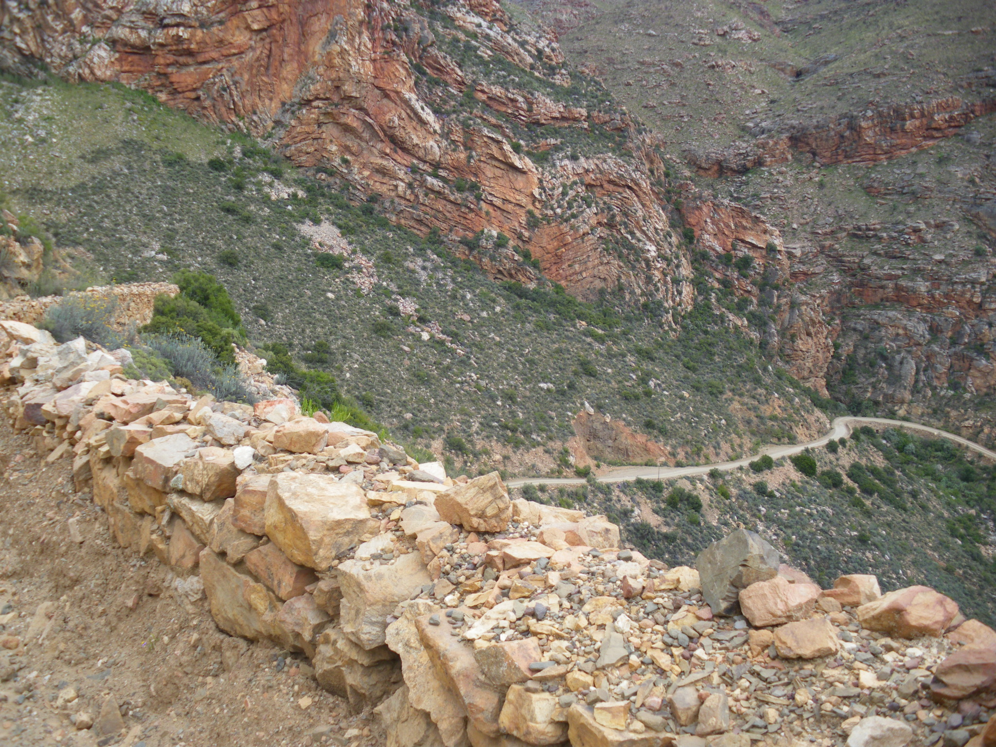 Swartberg Pass, Western Cape Province, South Africa.